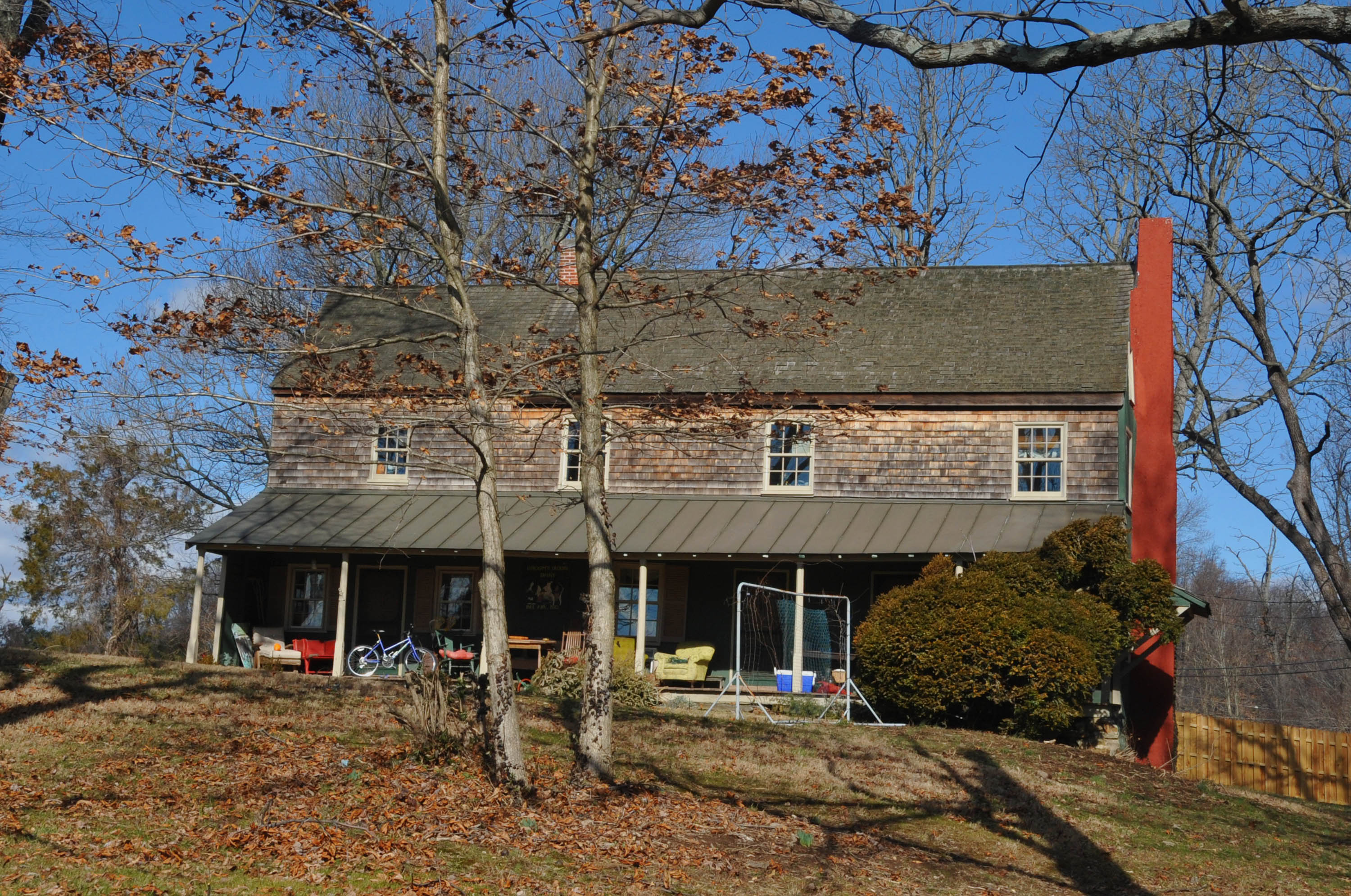 FARMHOUSE STARTED IN 1747 AND HAS CONTINUED DEVELOPMENT UP TO 1950; STARTED BY THE LOCALLY PROMINENT WEBSTER FAMILY. NOW PRINCIPAL HOUSE IS ON A DAIRY FARM in Harford County, Maryland, USA